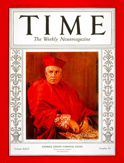 Patrick Cardinal Hayes, featured on the September 30, 1935, cover of Time magazine (Vol. XXVI, nr. 14).